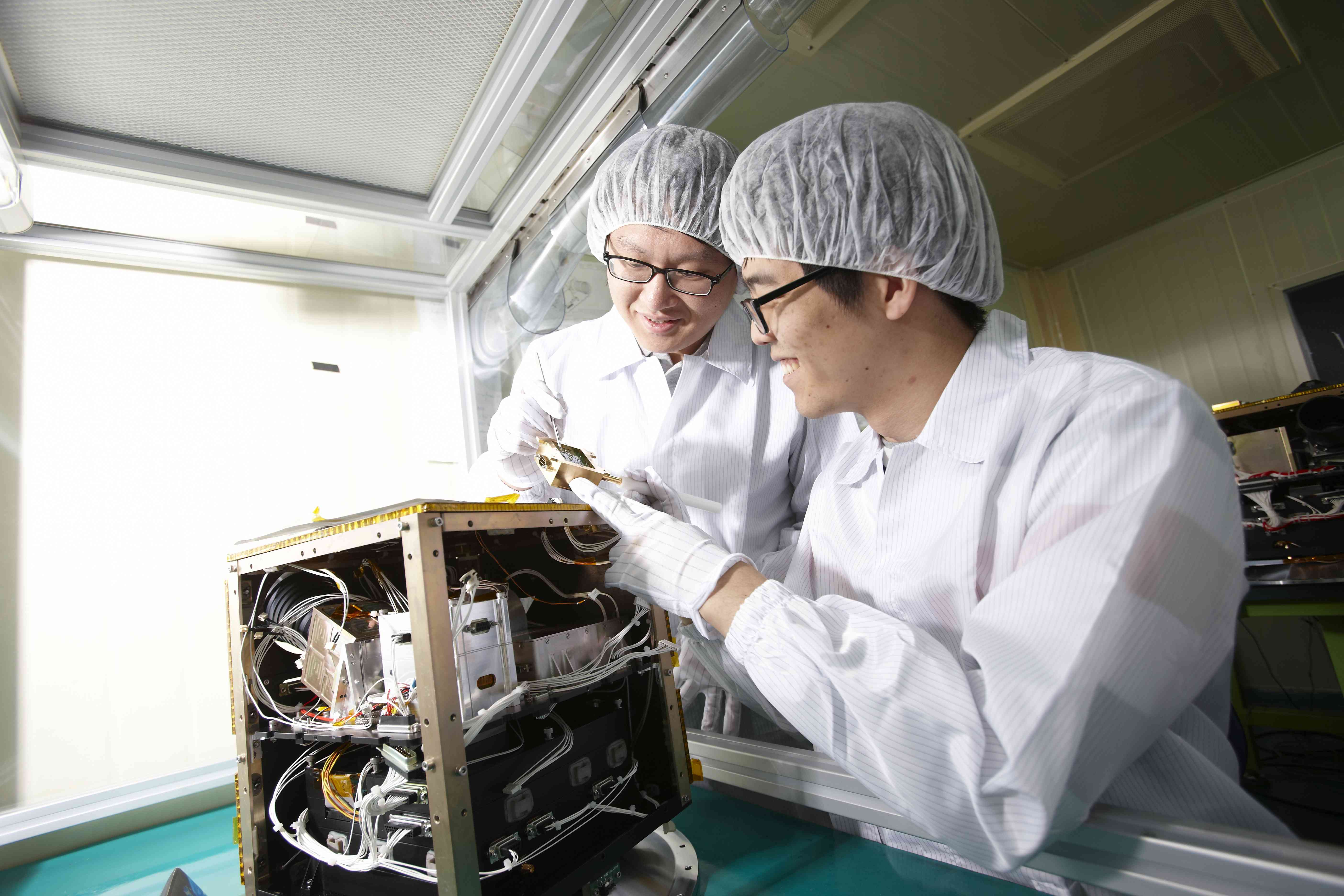 Korea Aerospace University Space System Research Lab